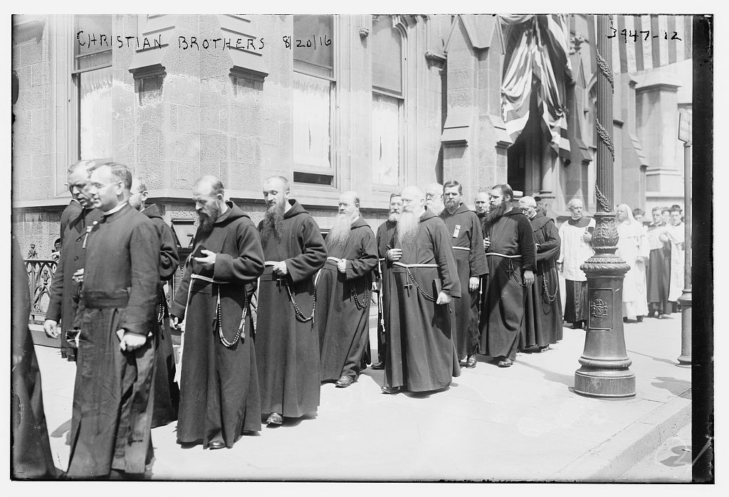 Bain News Service,, publisher. Christian Brothers 1916 Aug. 20 (date created or published later by Bain) 1 negative : glass ; 5 x 7 in. or smaller. Notes: Title and date from data provided by the Bain News Service on the negative. Forms part of: George Grantham Bain Collection (Library of Congress). Format: Glass negatives. Repository: Library of Congress, Prints and Photographs Division, Washington, D.C. 20540 USA, General information about the Bain Collection is available at Higher resolution image is available (Persistent URL): Call Number: LC-B2- 3947-12